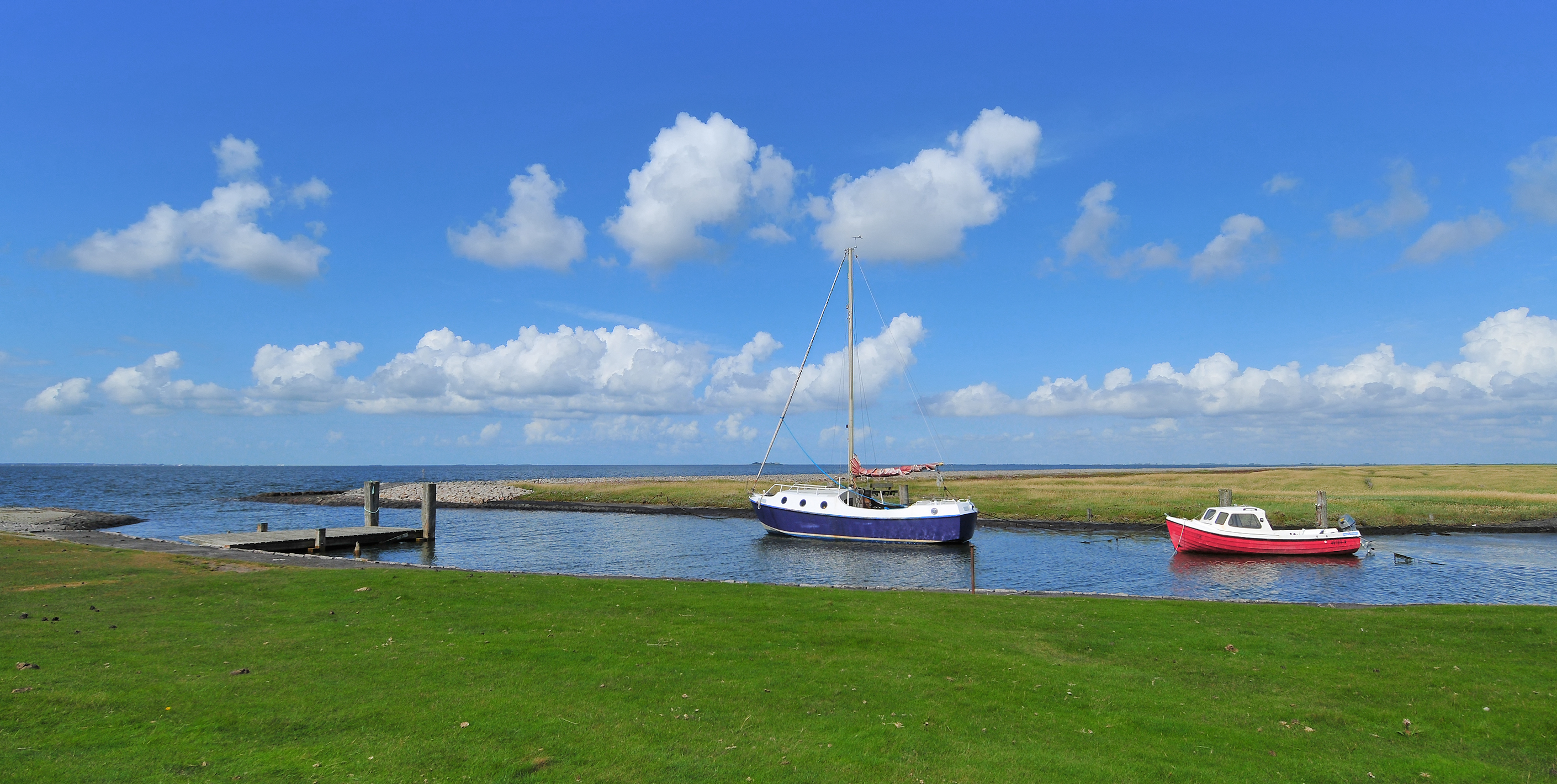 View to the Marina by the Hallig Gröde. The Hallig Gröde is an islets in the Schleswig-Holstein Wadden Sea National Park. Hallig Gröde is not protected from storm surges, she is flooded completely twenty to thirty times a year.